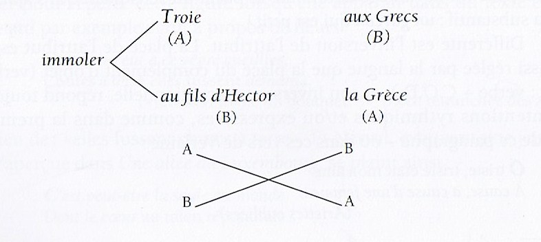 Chiasm: drawing